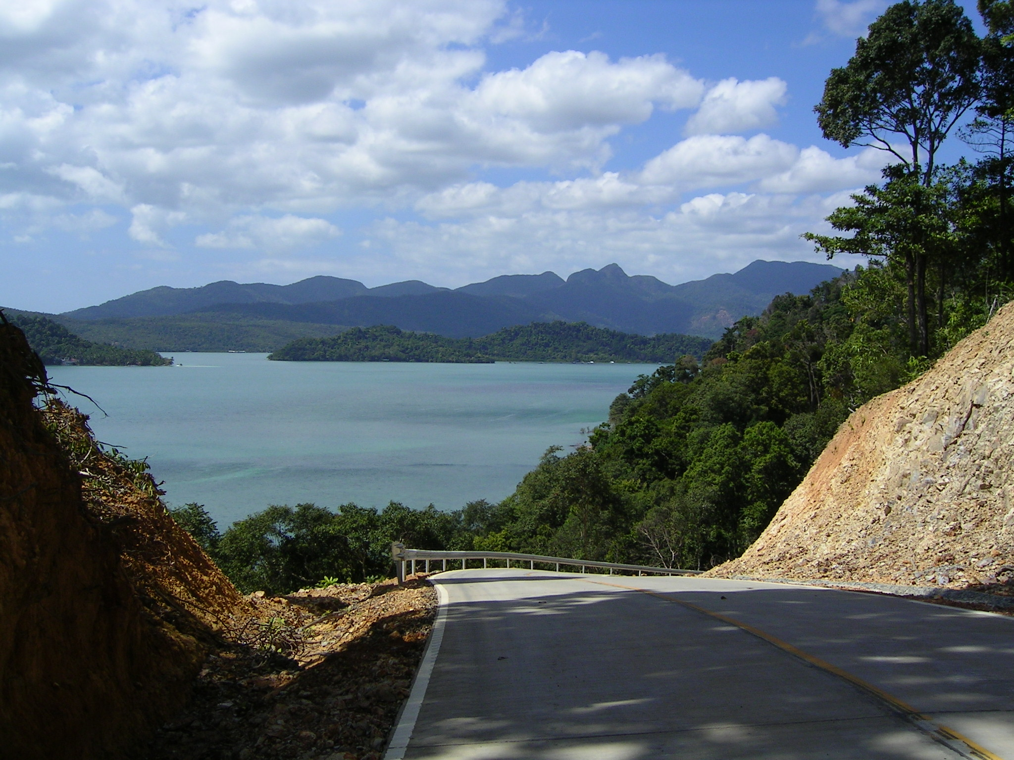 Ko Chang island in Trat Province, Thailand. This picture was taken on a new road leading from Kai Chek Bae to Long Beach on the eastern side of the island. In the background, Ao Salak Phet Bay.